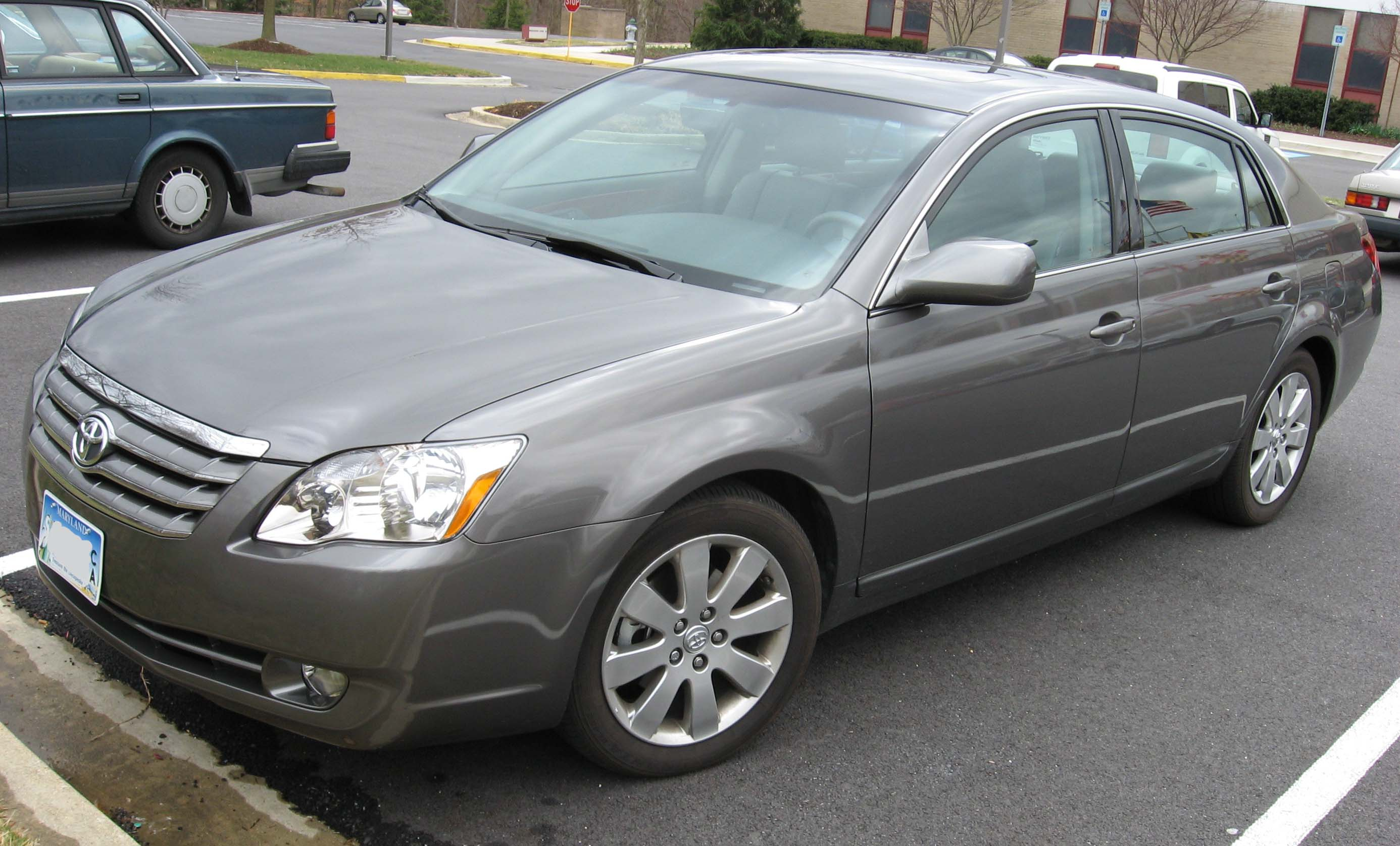 2005-2007 Toyota Avalon photographed in USA.